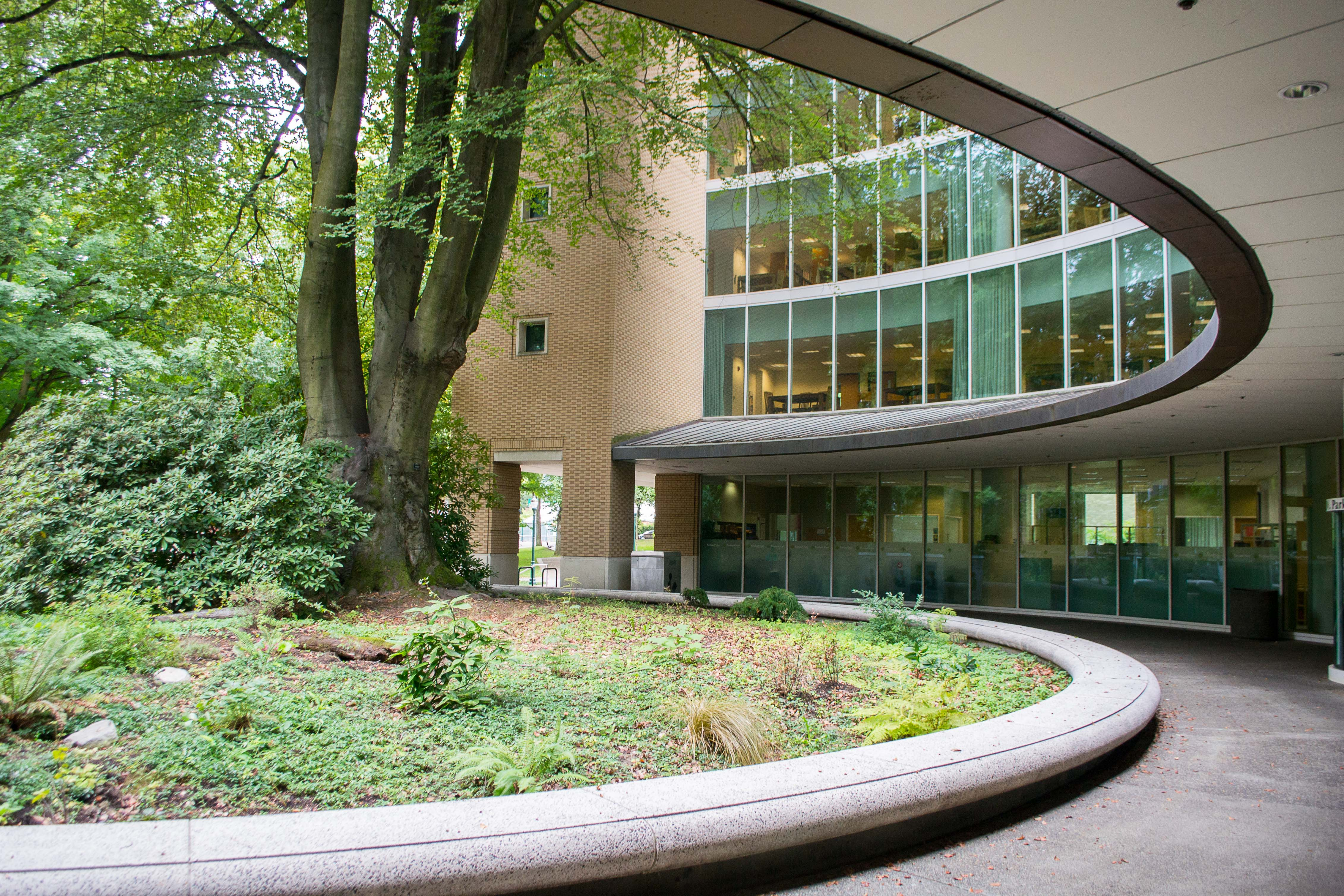 The atrium area of the Millar Library at Portland State University